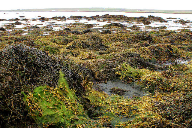 Seaweed and rocks, Baltasound A small 'headland' along the shore on the north side of Baltasound voe, visible only at low tide.